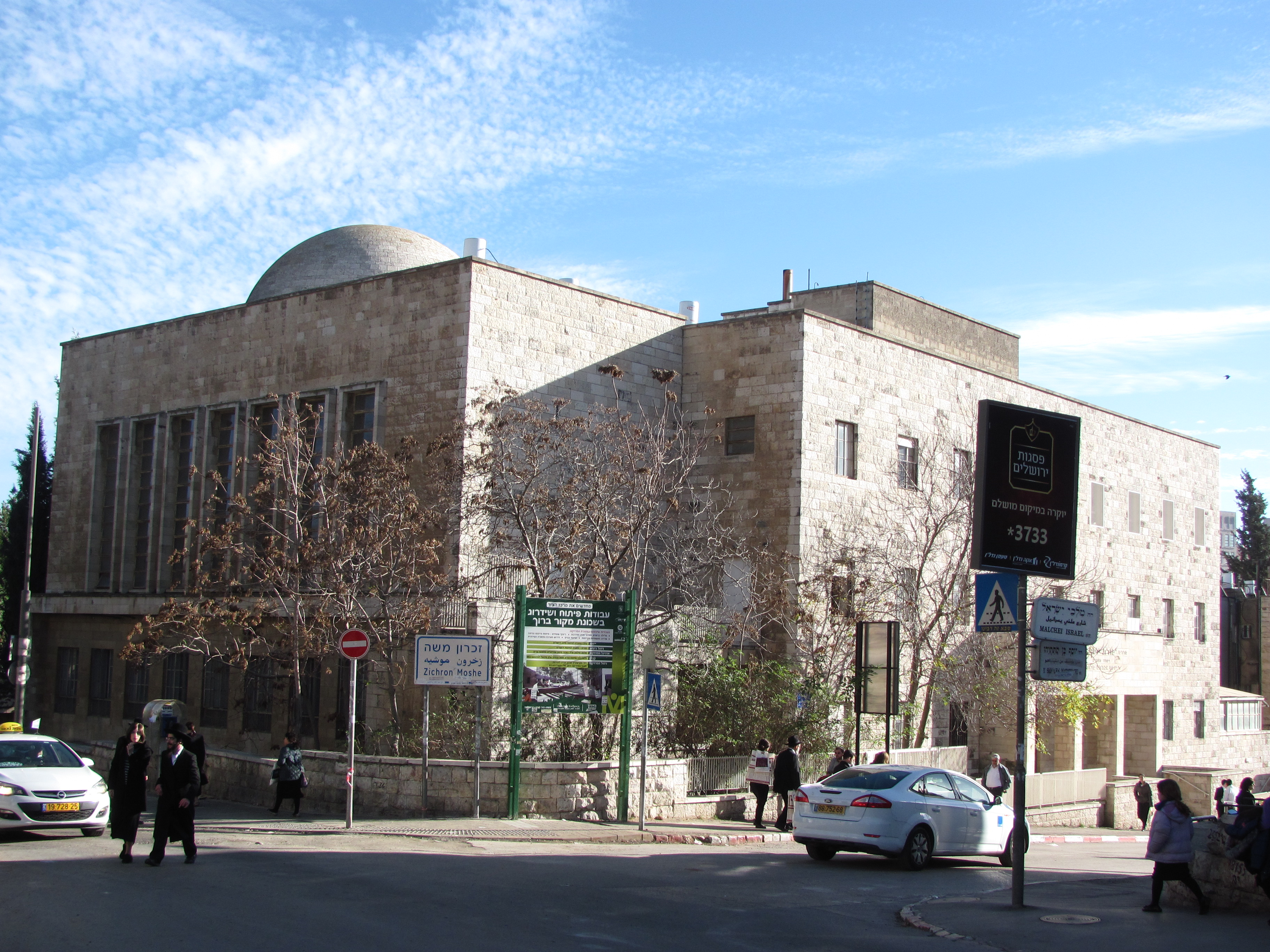 Geula branch of the Porat Yosef Yeshiva, Jerusalem, Israel